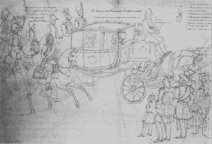 Parade and thanksgiving service to mark the end of military operations in the Kingdom of Poland October 6, 1831 at Tsaritsyn Meadow in St Petersburg